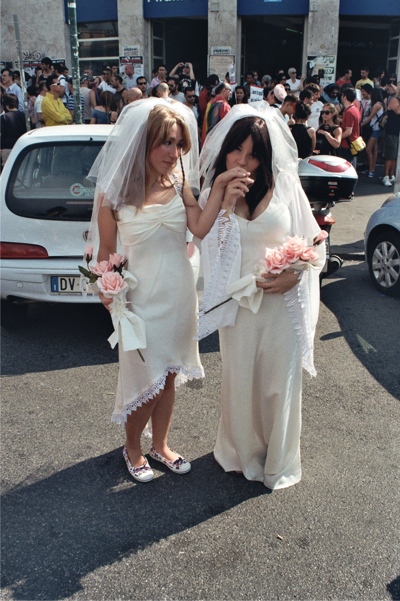 Two young Italian girls, both dressed as bride advocating for same-sex marriage at the 2010 Gay Pride in Rome